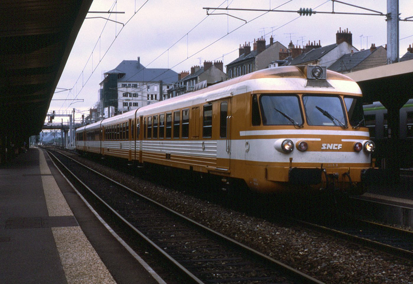 Turbotrain class T1000 (ETG) set T1009 is seen at Nevers between workings on 26 August 1989. The incoming service was train E5872, 09:41 Lyon Perrache to Nevers. A couple of hours later it would form train E5983, 15:01 Nevers to Dijon Ville.